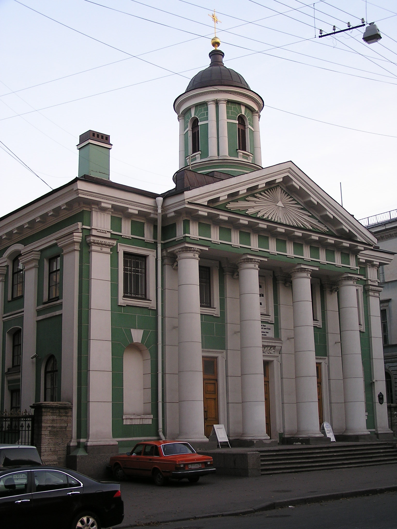 The Evangelical Lutheran Church of Saint Mary in St. Petersburg, Russia, the main church of the congregation of Ingermanland, has been restored to its original shape and reopened for worship. The church was erected in 1805.